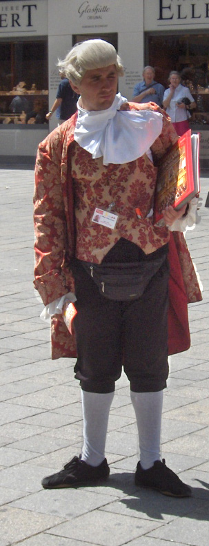 Costume in Vienna, second half 18th century